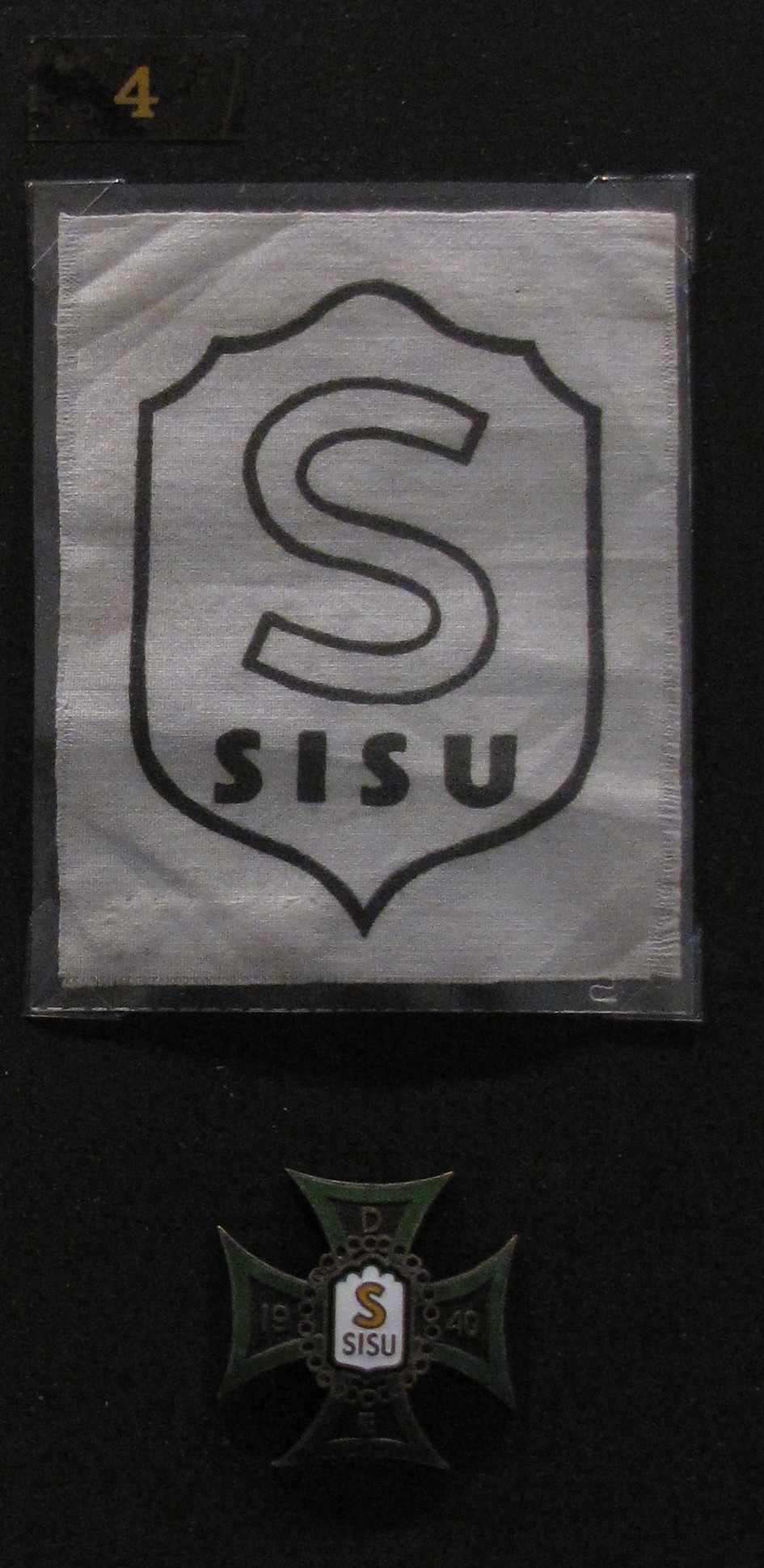 Shoulder patch and insignia of British Sisu Winter War volunteer unit. Photographed in the "Winter War - 70 years" exhibition in the Military Museum of Finland.